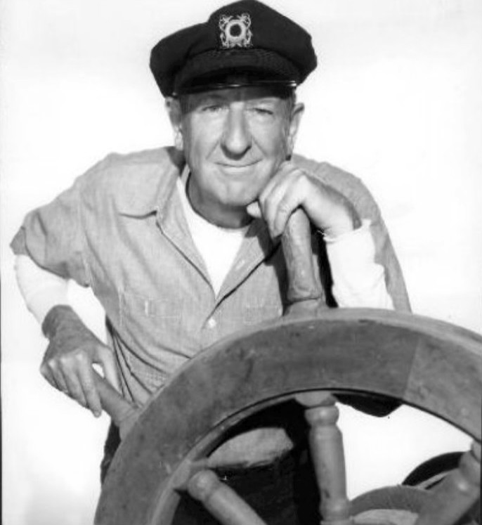 Photo of actor Paul Ford as Sam Bailey from the television comedy The Baileys of Balboa.